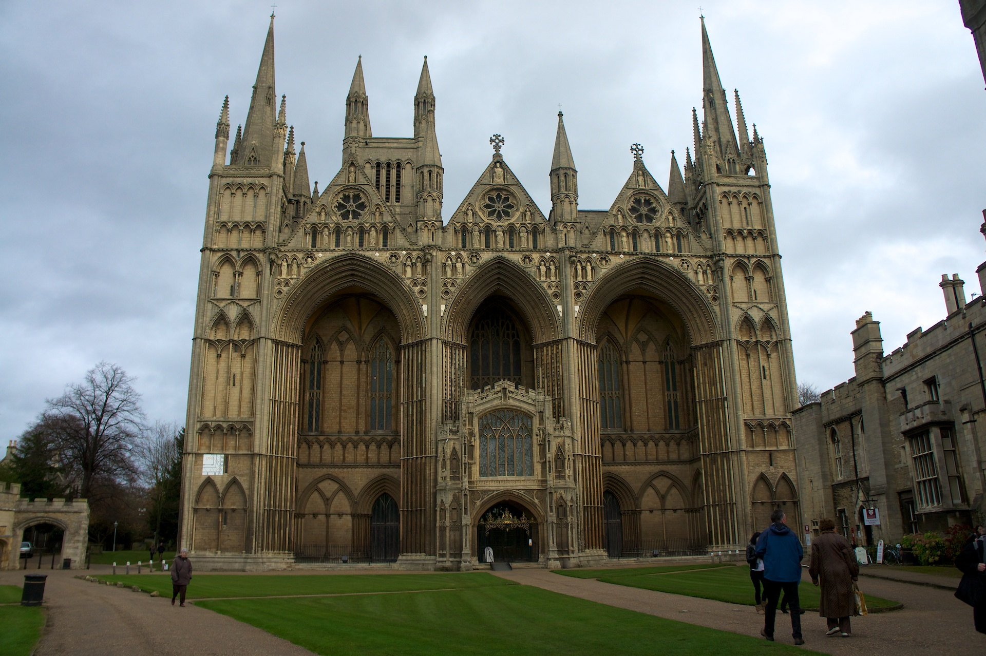 Peterborough Cathedral